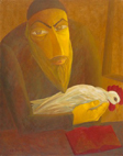 I own this photo. I have the permission from the artist to use this photo on Wikipedia or related sides and allows use anywhere, for commercial use or otherwise, and allows modifications.